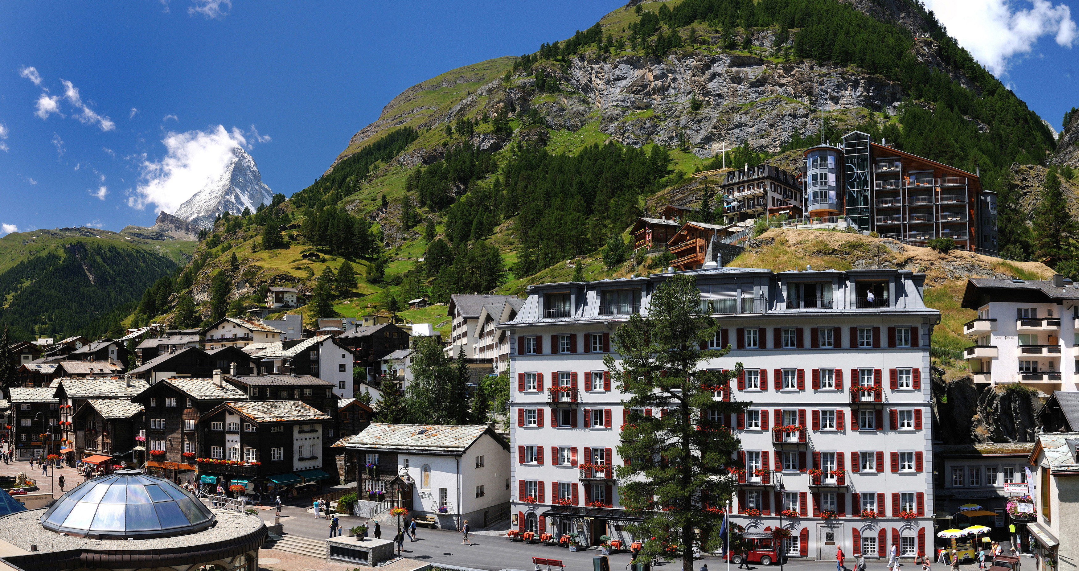 Hotel Monte Rosa in Summer